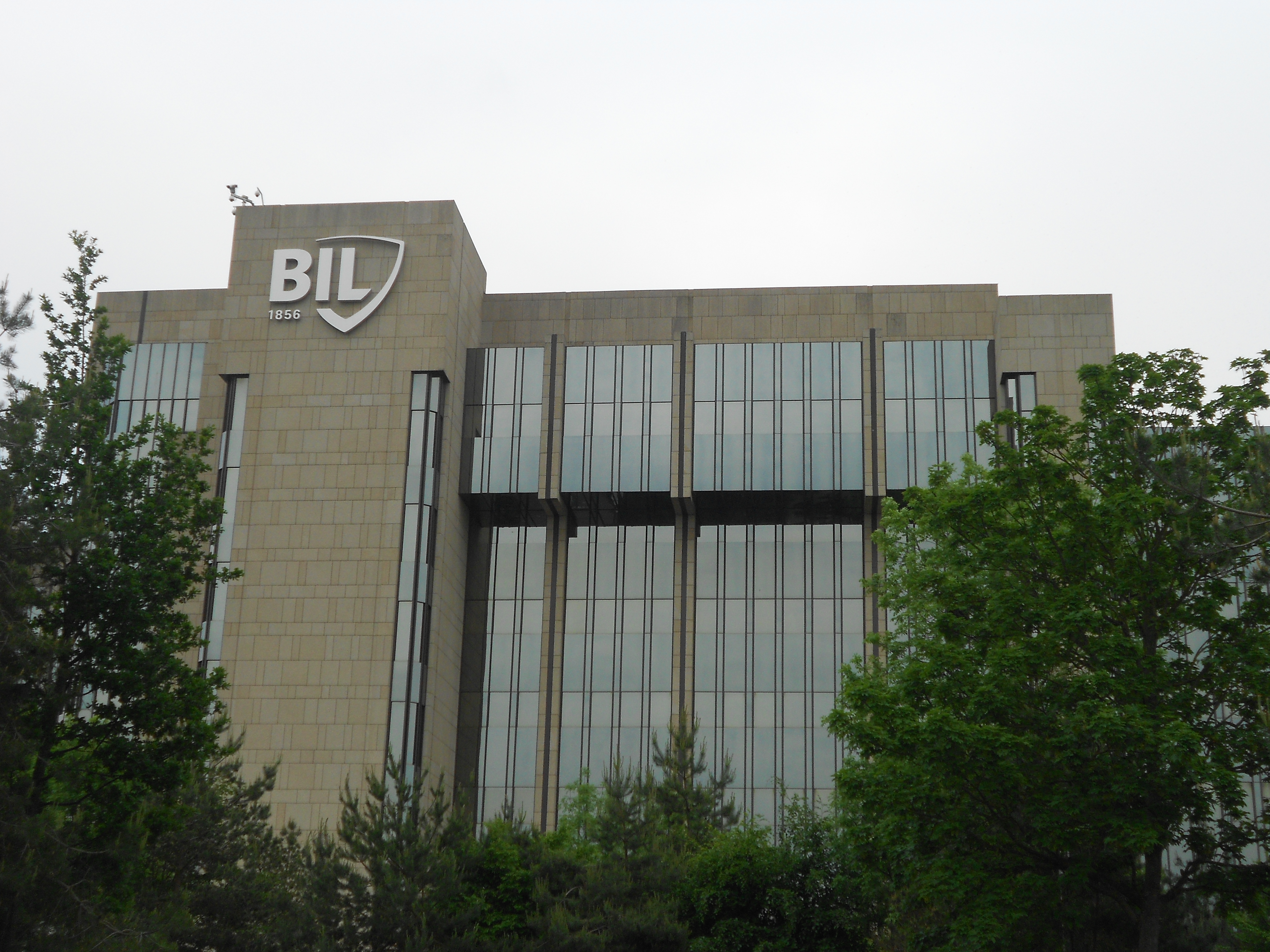 Building of the Banque internationale à Luxembourg (BIL) in the city of Luxembourg.